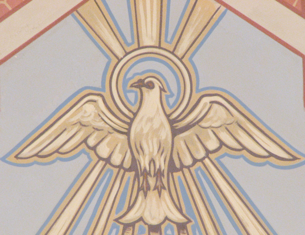 Saint Pius V Catholic Church, Saint Louis, Missouri, the United States